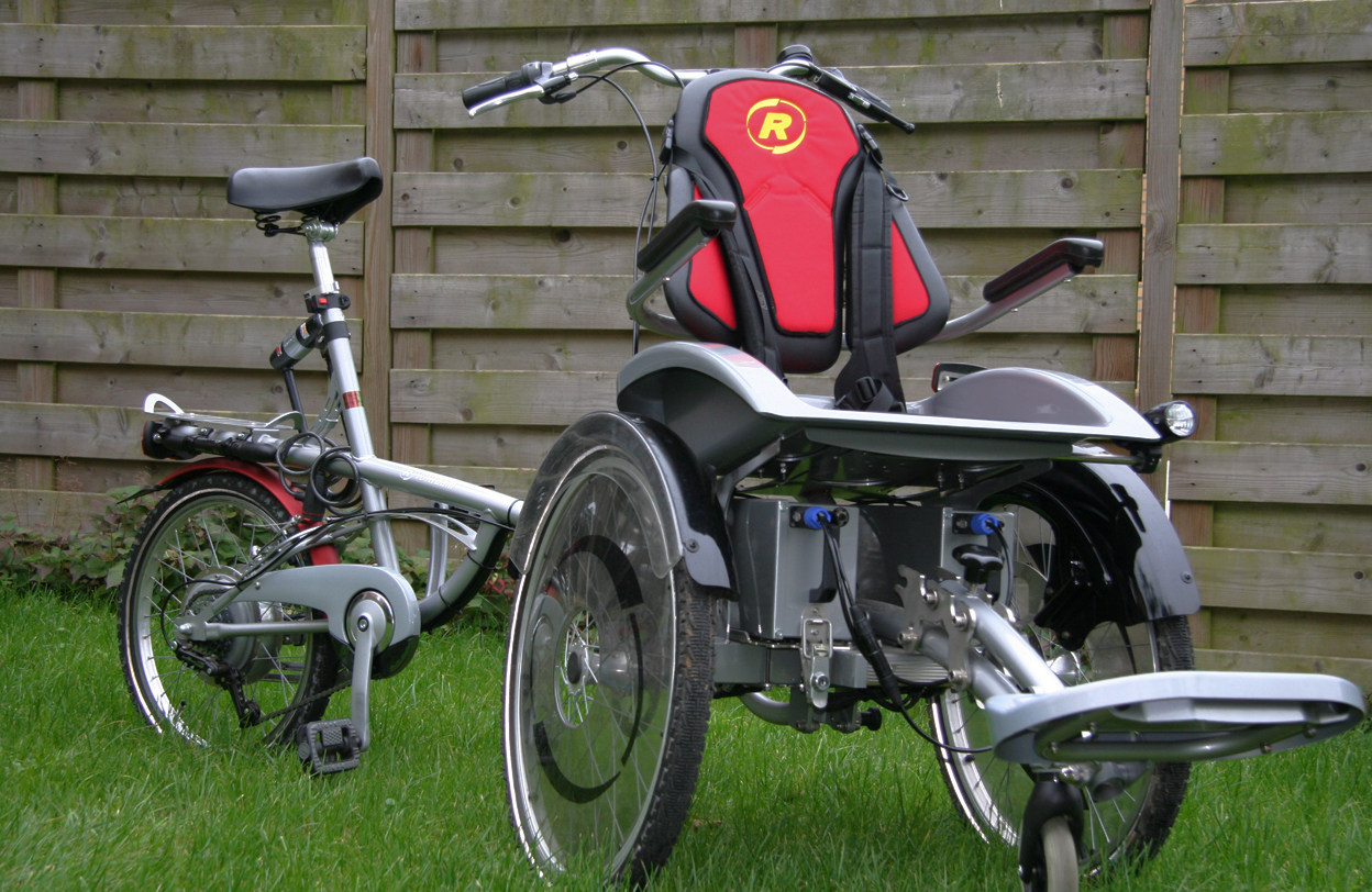 Wheelchairbike without passengers